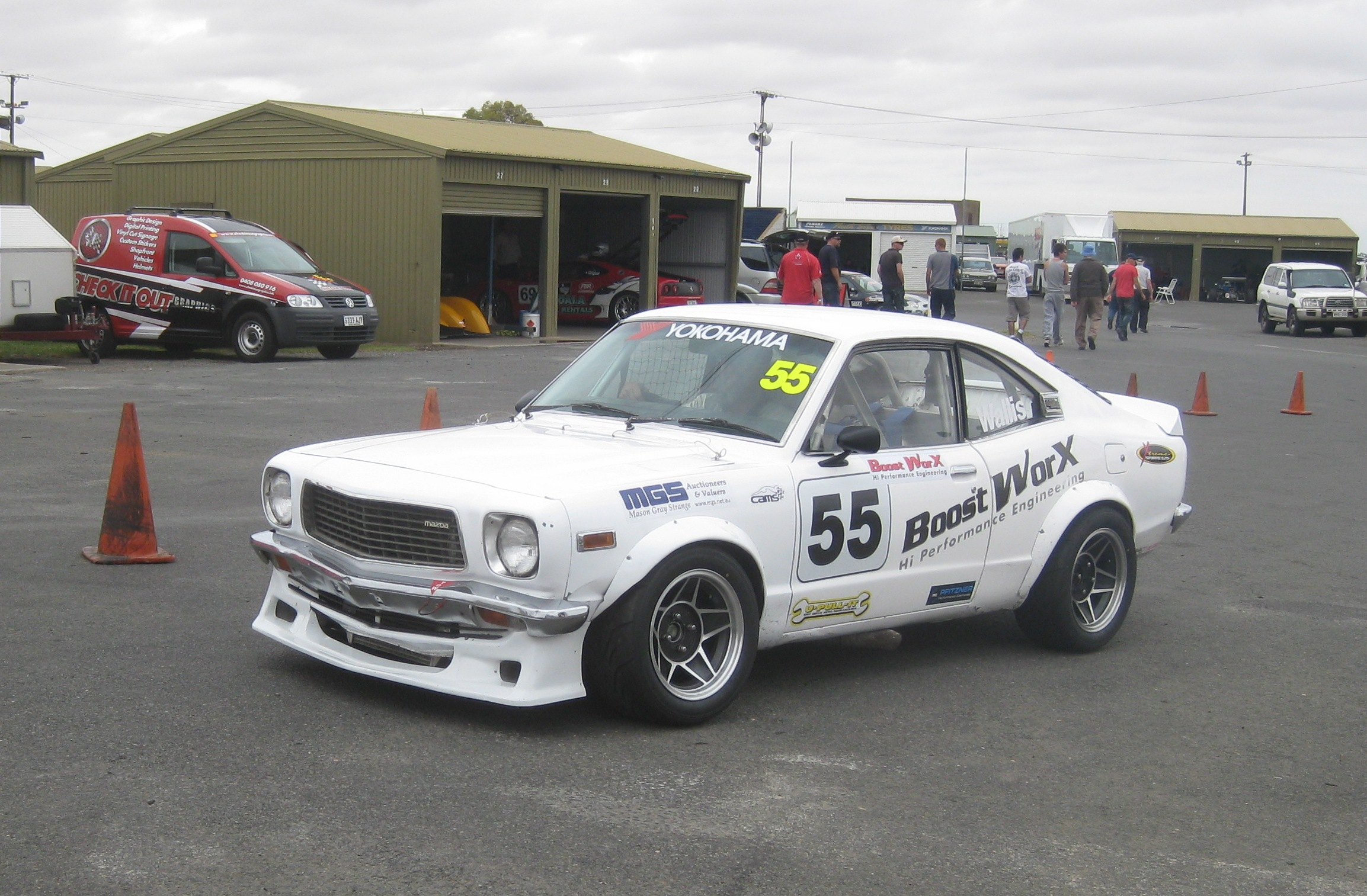 Mazda 808 of Tony Wallis. The photo was taken at the 2011 Australian Improved Production Car Nationals, which was won by Wallis.